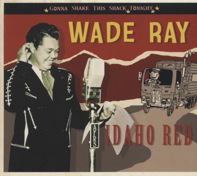 Wade Ray on Bear Family Cover